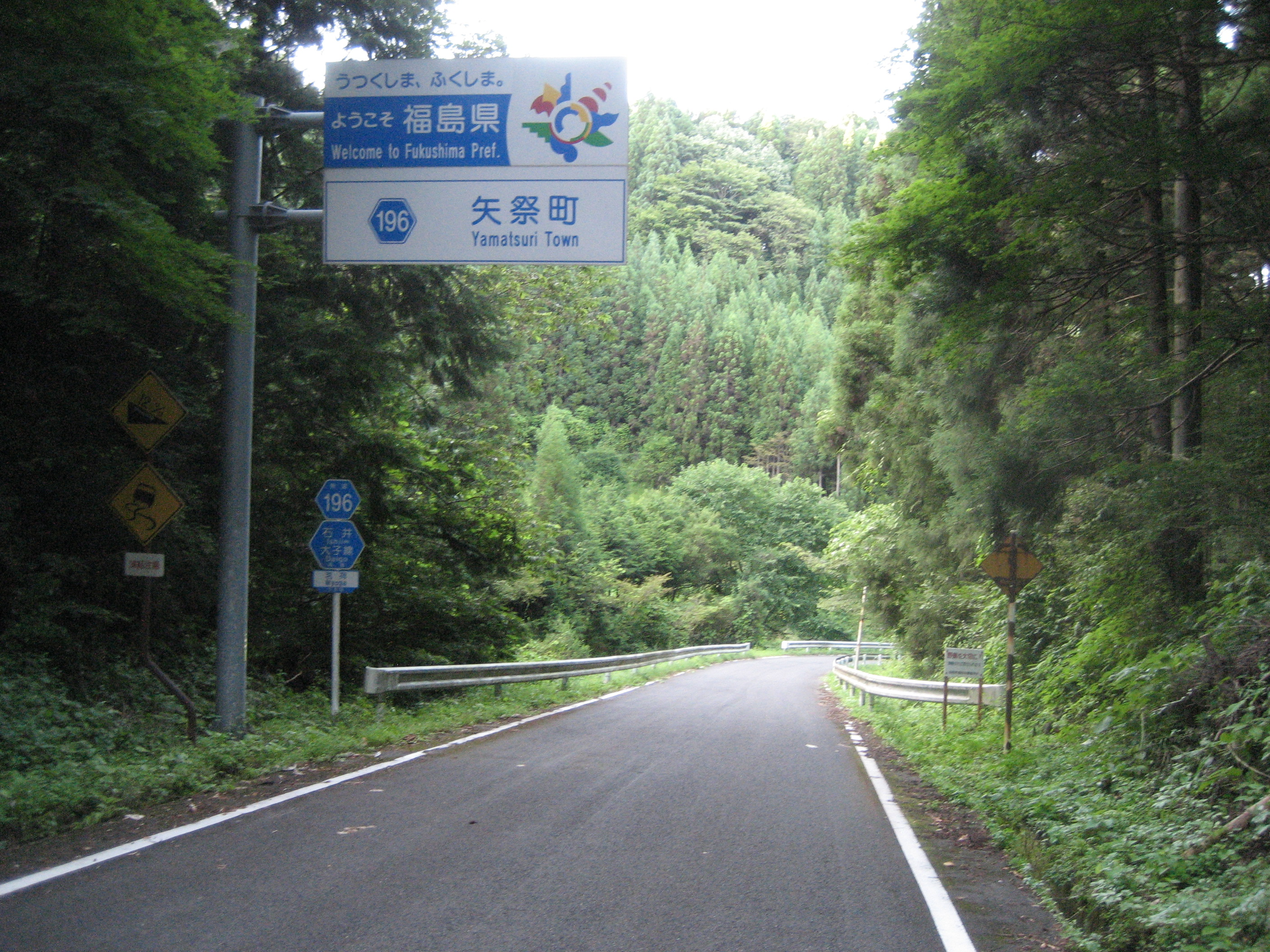 Fukushima Prefectural Road Route 196 in Yamatsuri Town